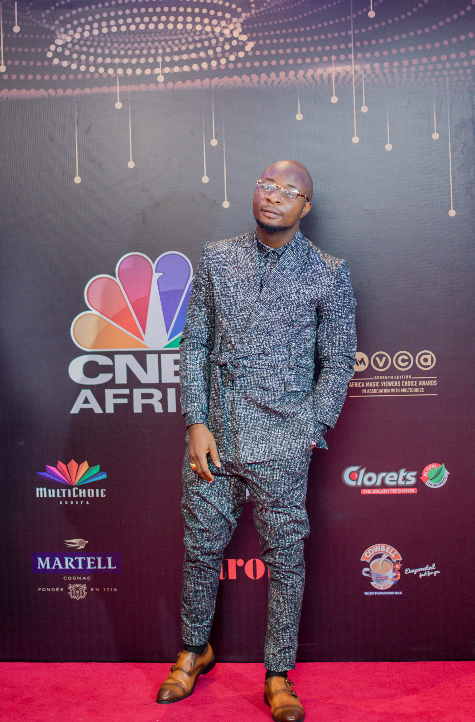 Pictures from AMVCA 2020